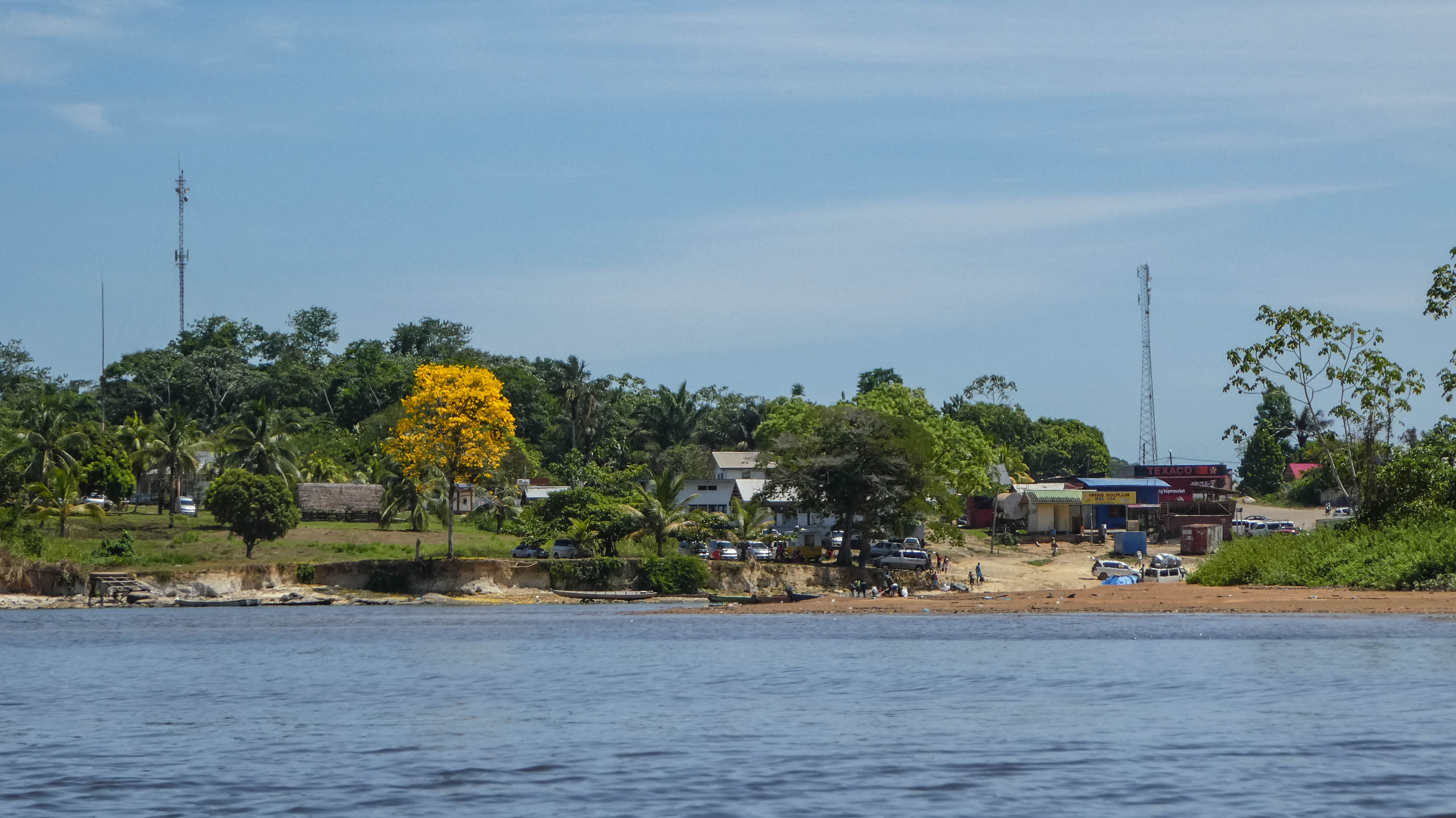 The harbor of Atjoni or Adjoni, near Pokigron in Suriname, where the road stops and travel has to continue in boats